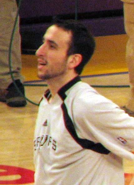 Manu Ginobili, San Antonio Spurs, warming up for a game vs. Los Angeles Lakers January 28, 2007